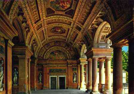 Palazzo Te Mantova